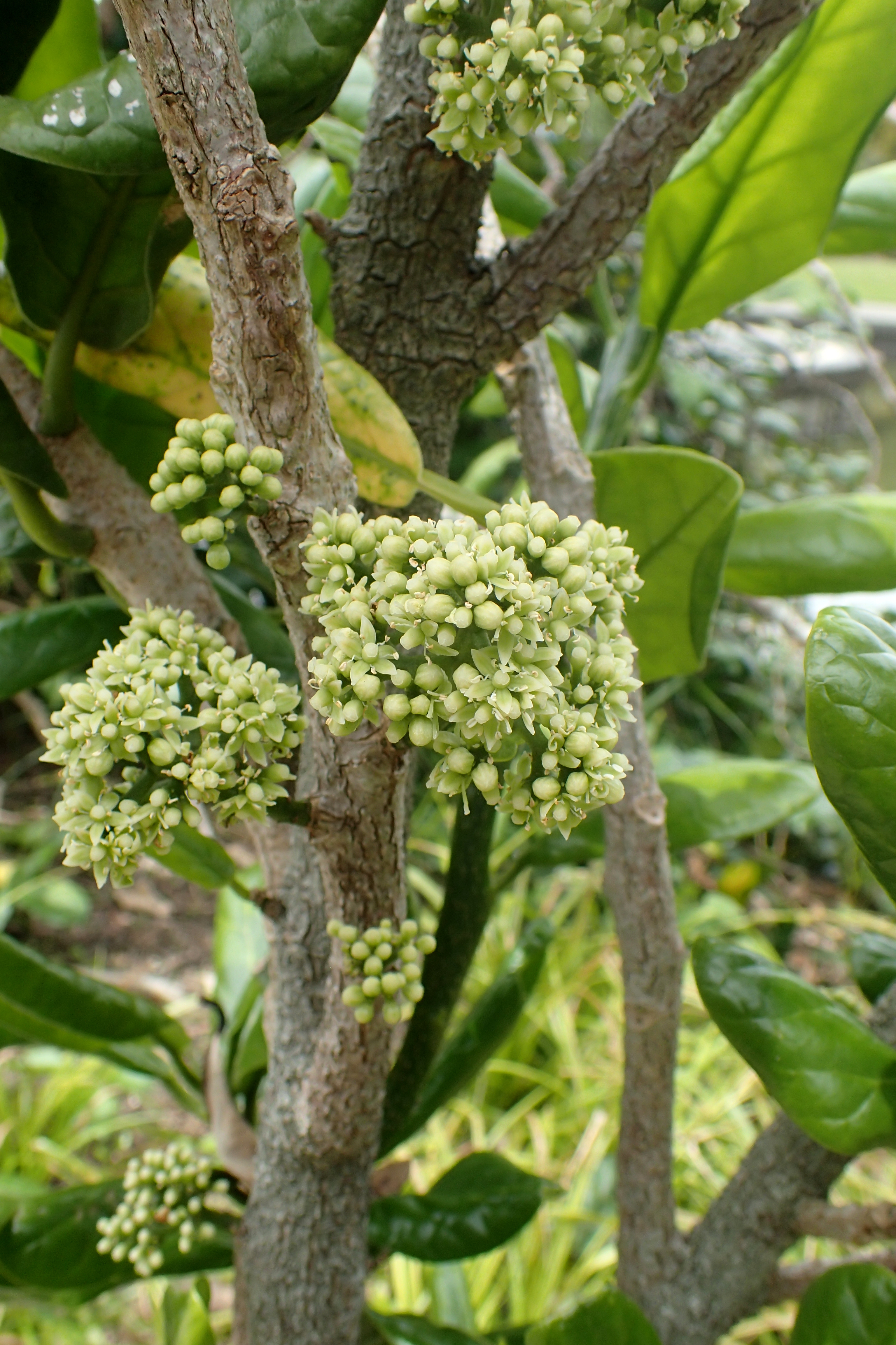 Pennantia baylisiana in Auckland Botanic Gardens